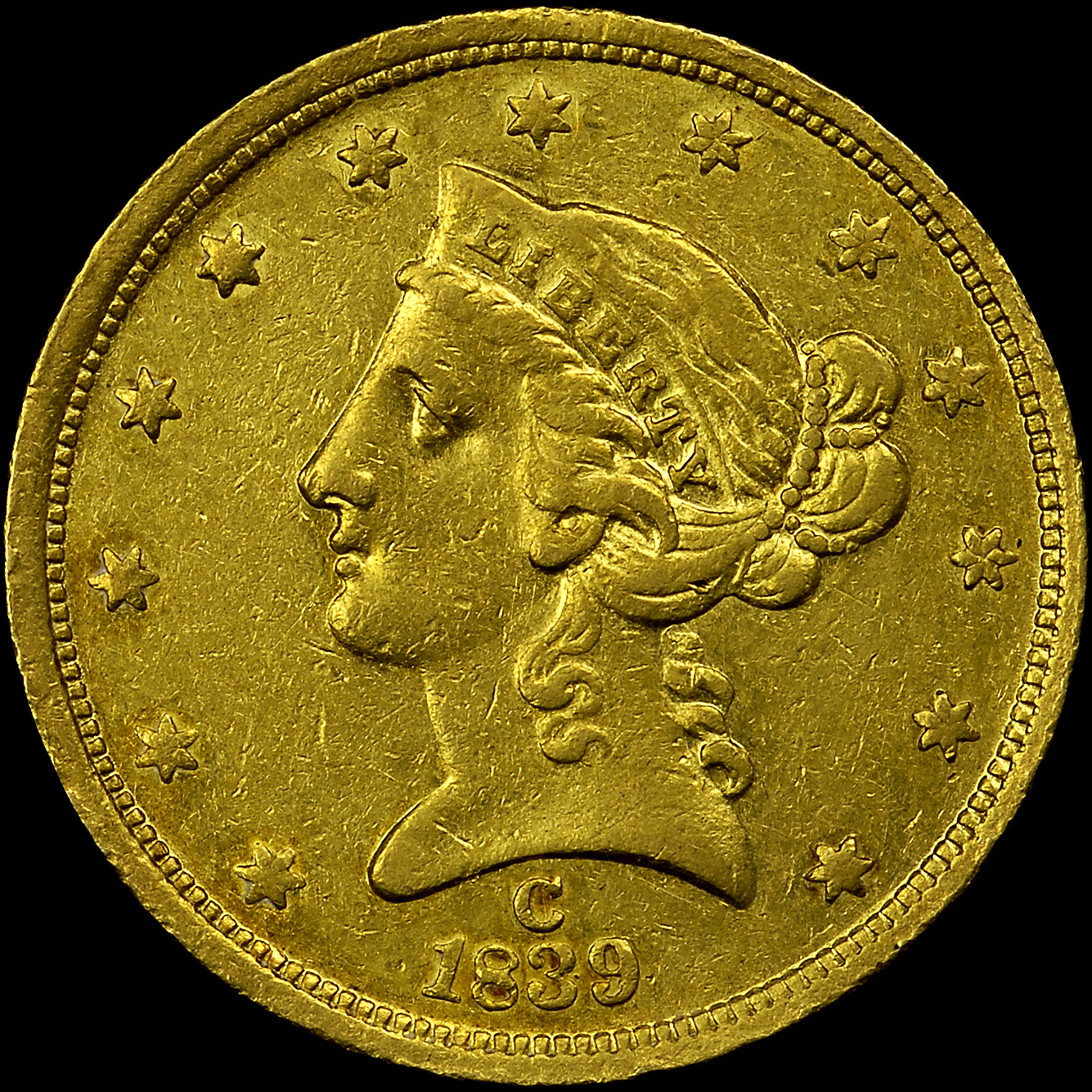 1839-C $5 -- Improperly Cleaned -- NGC Details. AU. Variety 1. Ex: "Col." E.H.R. Green. Lightly cleaned with numerous light abrasions but no overt hairlines or evidence of harsh cleaning, this Charlotte Mint example is a necessity for type and gold specialists because of its one-year-only design status and the popular obverse mintmark. A year later, the portrait was subtly modified and the mintmark moved to the reverse, where it resides for the rest of the series. Despite the cleaning, mint luster remains around the devices and the in-hand impression conveys nice eye appeal. Ex: "Colonel" E.H.R. Green; Green Estate; Partnership of Eric P. Newman / B.G. Johnson d.b.a. St. Louis Stamp & Coin Co.; Eric P. Newman @ $30.00; Eric P. Newman Numismatic Education Society. Realized $4406.25. Description courtesy of Heritage Auctions.